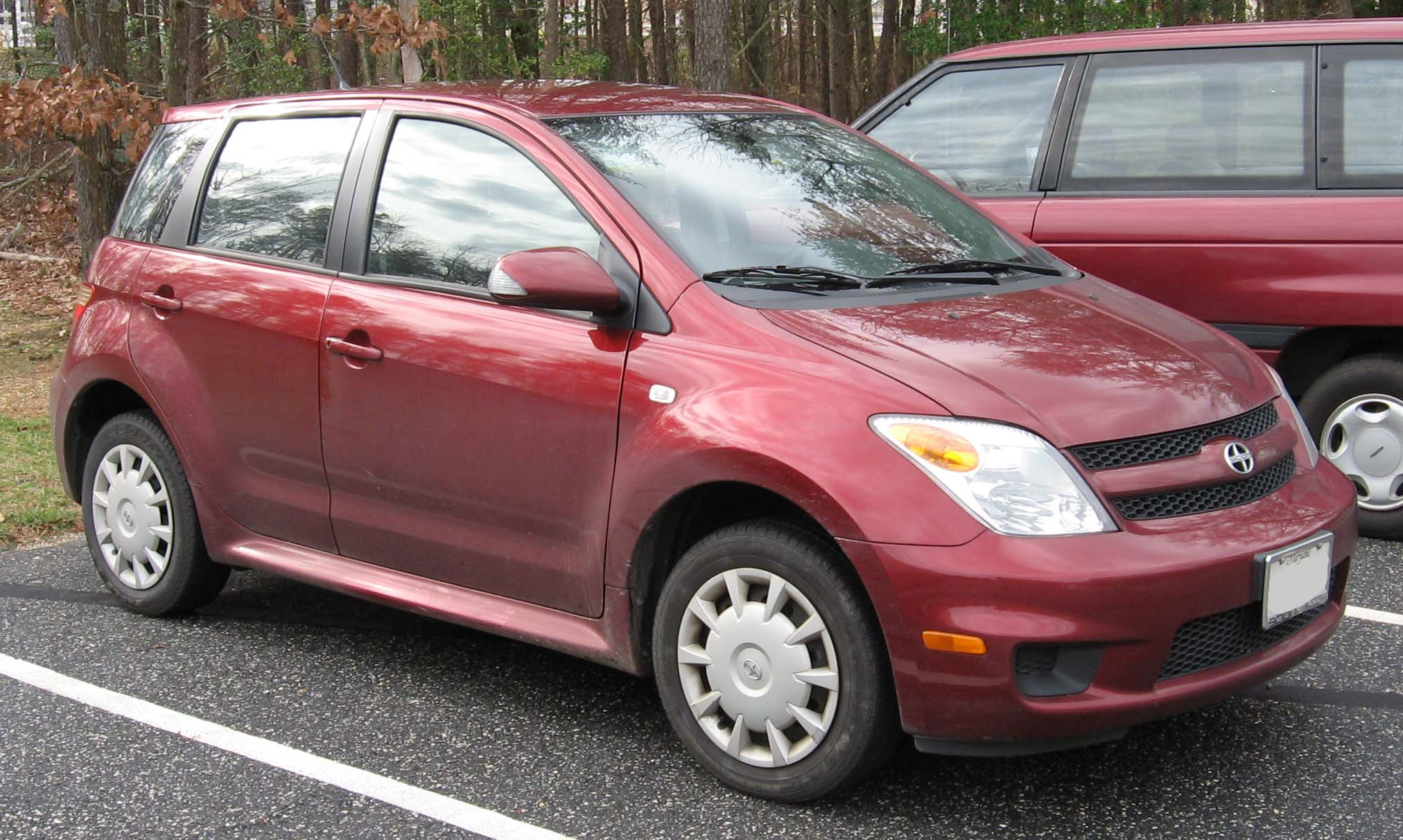 2006 Scion xA photographed in USA.